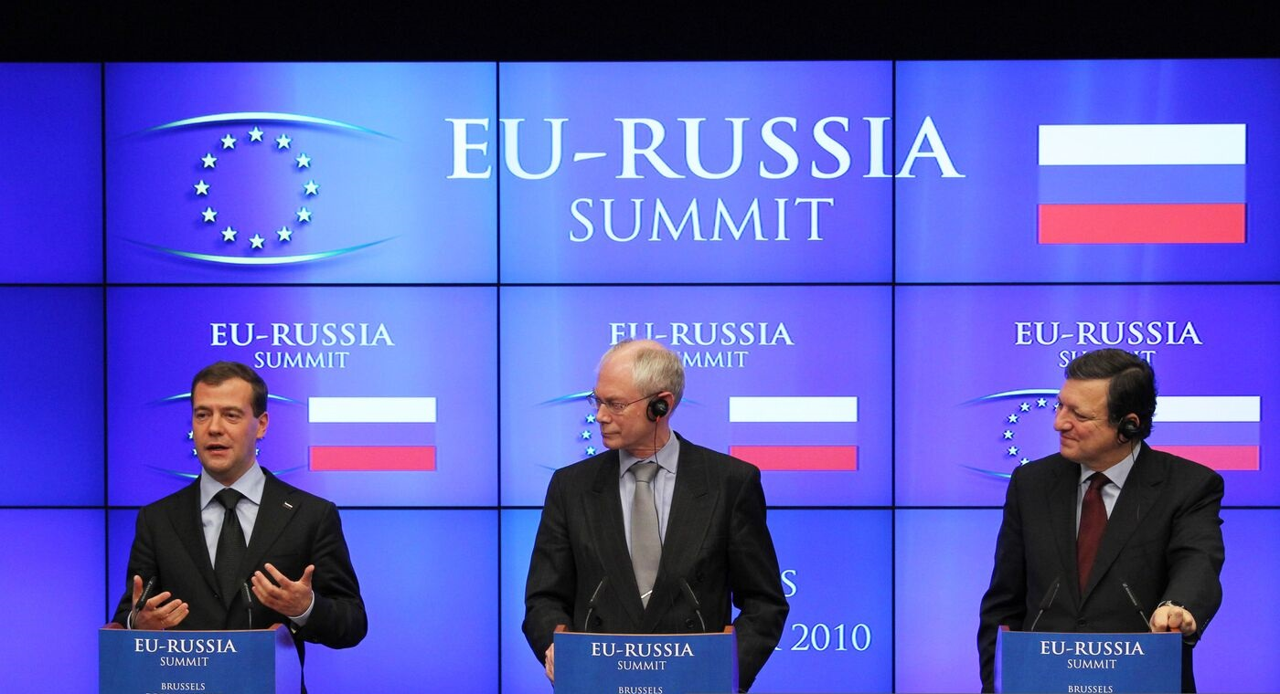 Joint news conference. With President of the European Council Herman Van Rompuy and President of the European Commission Jose Manuel Barroso.